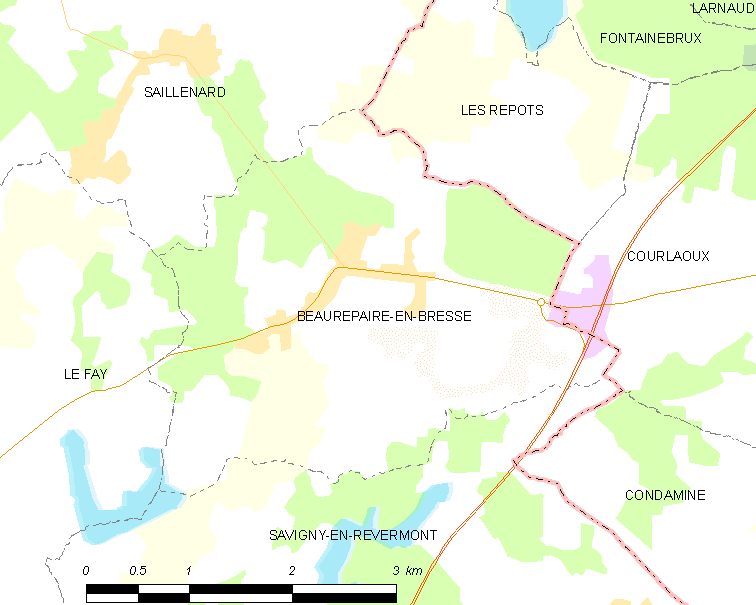 Map of French municipality